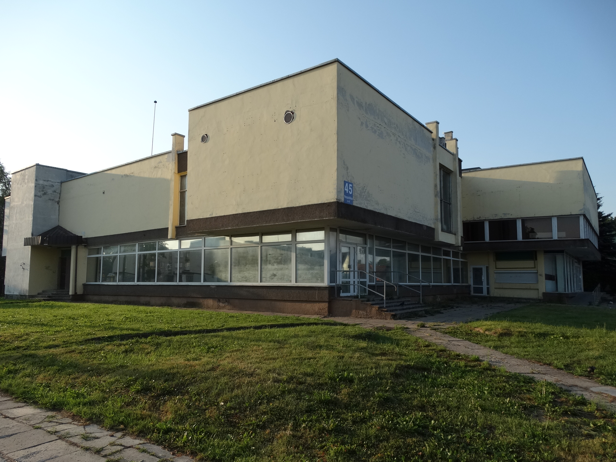 Former School of Culture, Rokiškis, Lithuania